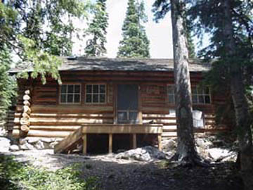 Front of the Fern Lake Patrol Cabin, located at Fern Lake west of Estes Park in the Larimer County portion of Rocky Mountain National Park in the U.S. state of Colorado. Built in 1925, it is listed on the National Register of Historic Places.